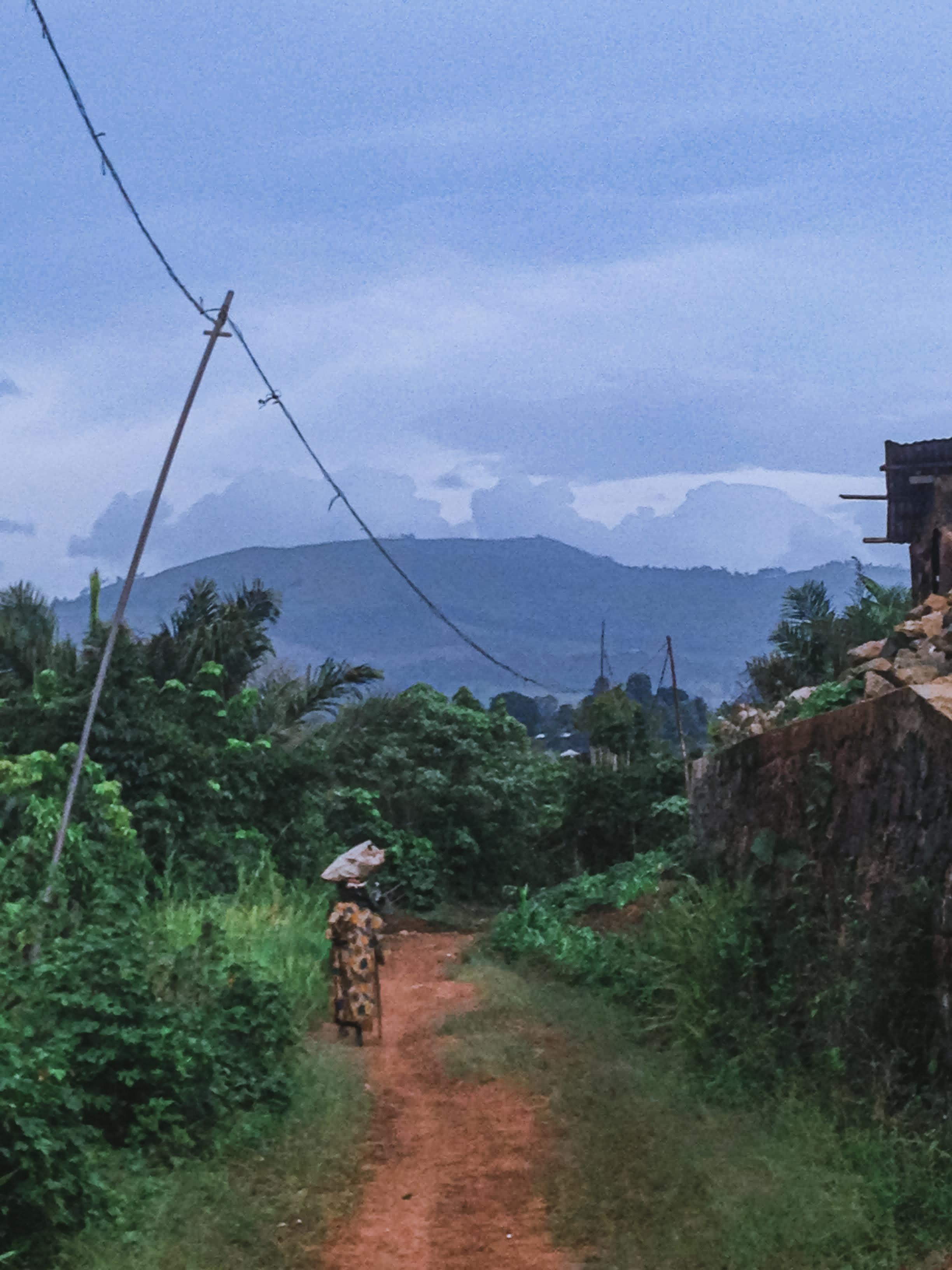 This is an image with the theme "Africa on the Move or Transport" from: Cameroon